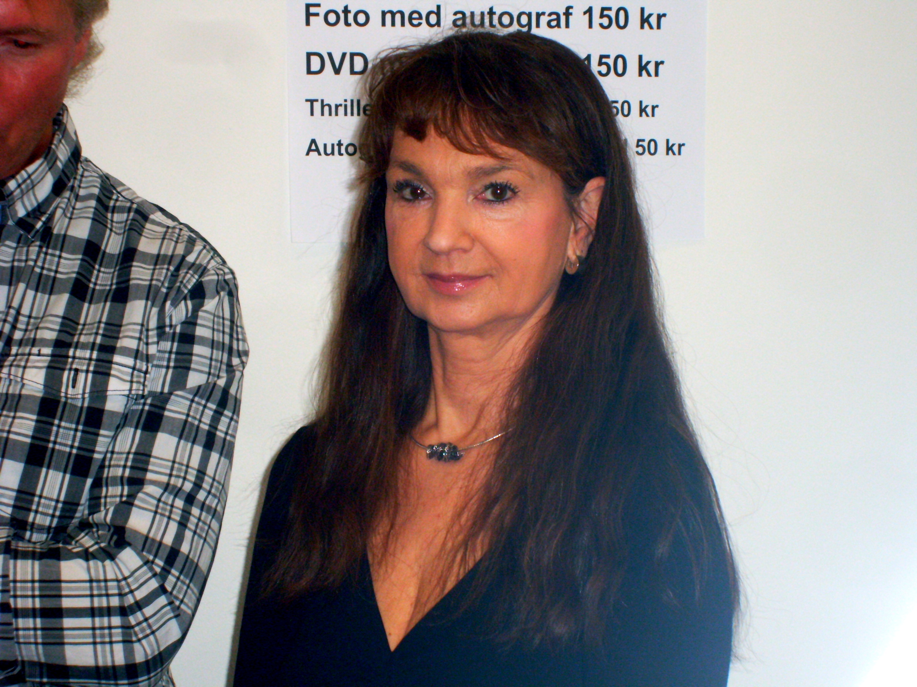 Christina Lindberg, Swedish actress at Stockholm International Fairs 2012.